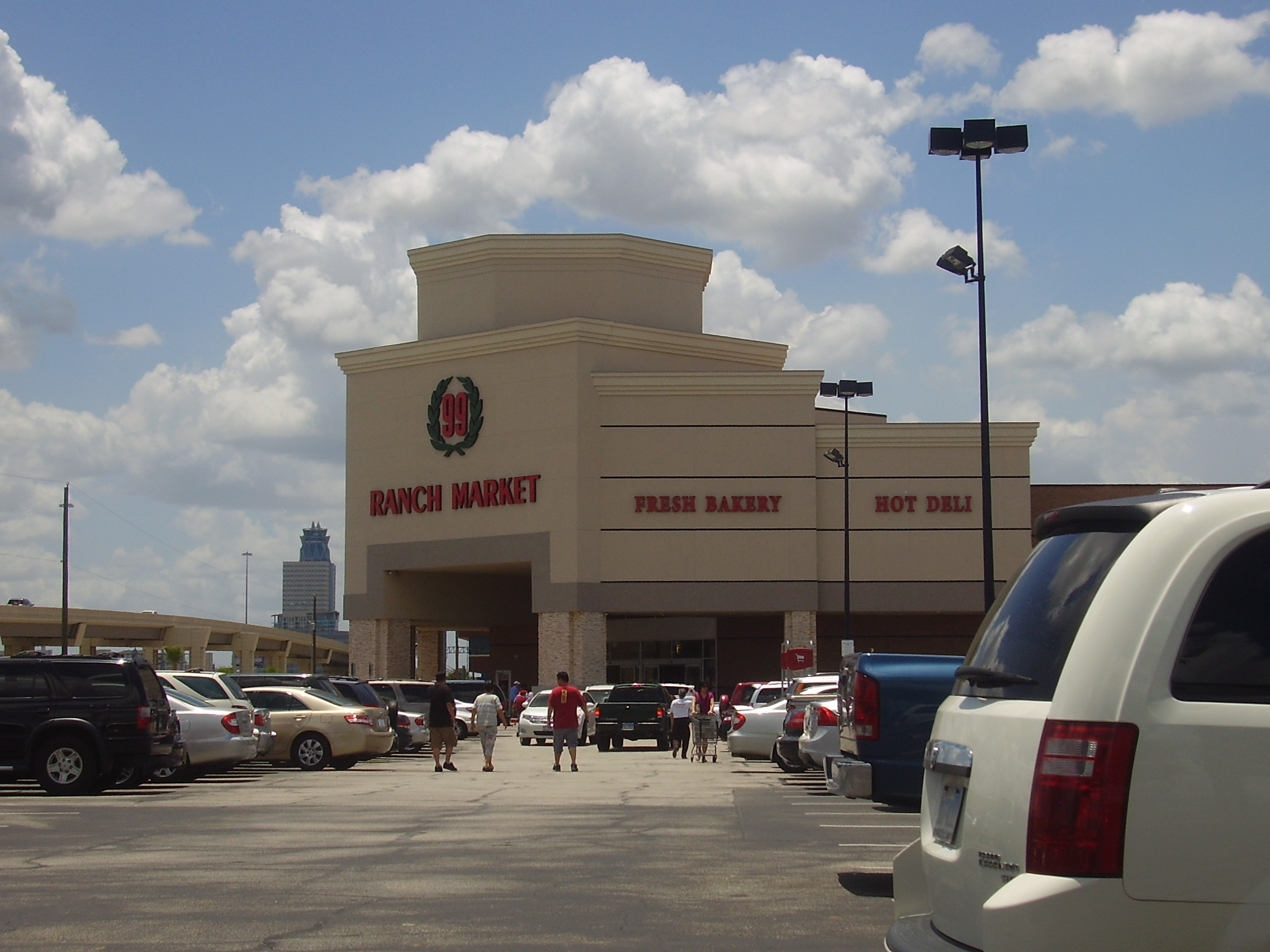 99 Ranch Market - Blalock Market Shopping Center, Spring Branch, Houston - 1005 Blalock Rd., Houston, TX 77055 - Opened in November 2008 in a former Fiesta Mart